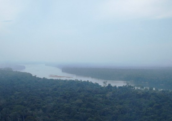 Orinoco River, view from La Esmeralda. Amazonas state. Venezuela.